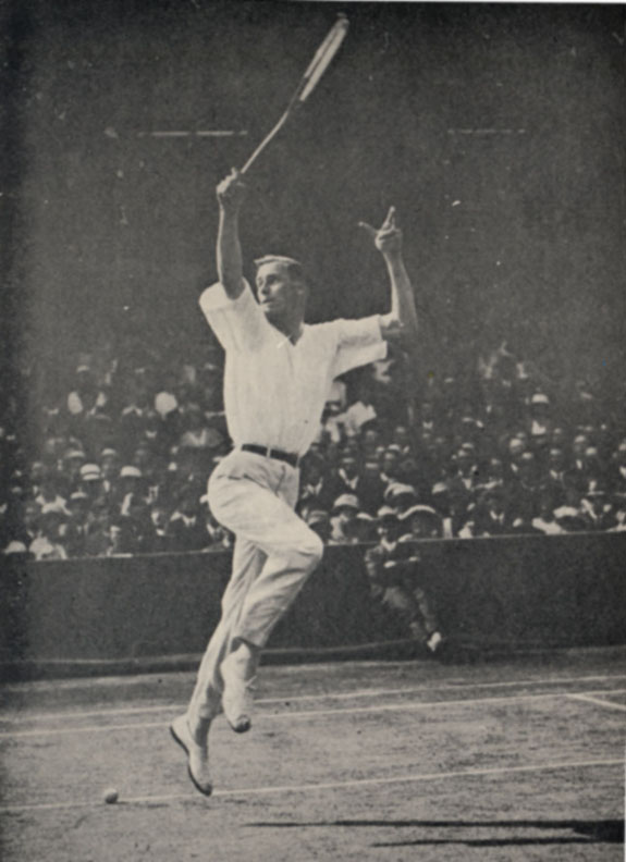 Before Bill was Big: Tilden in 1919